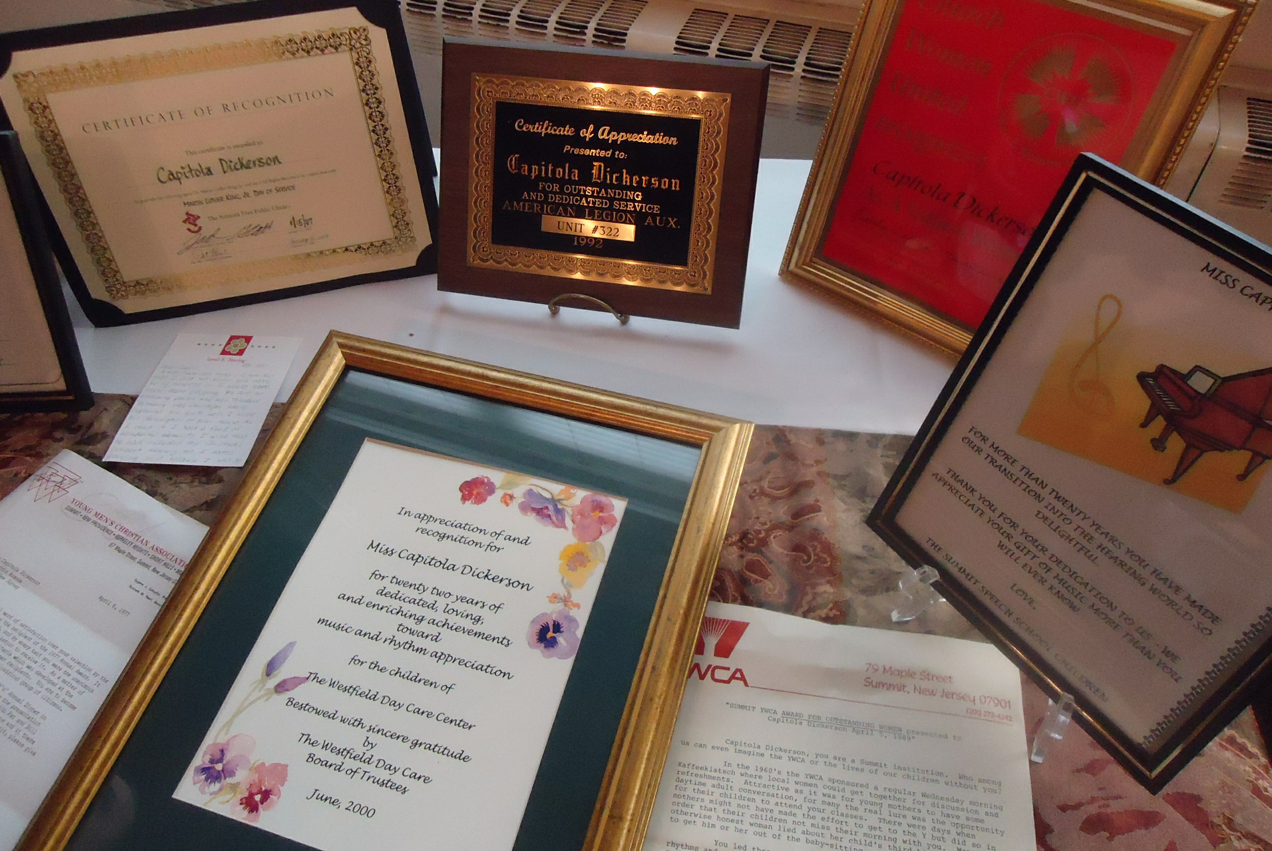 Memorial service for Capitola Dickerson (1913-2012) at St. John's church in Summit, New Jersey, on September 22, 2012 (correct date). Plaques and certificates on display.